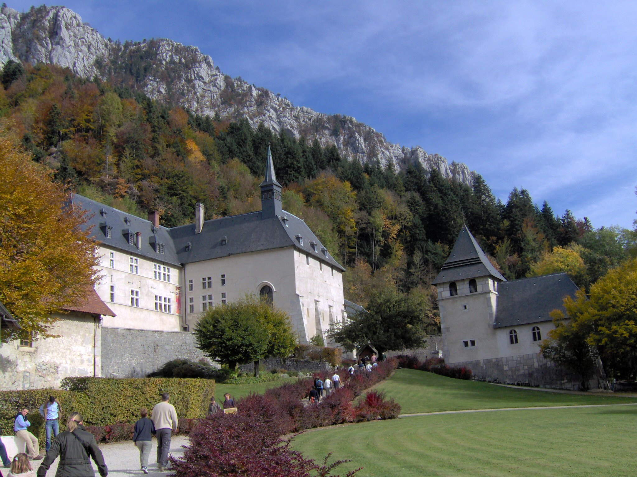 The corrérie of the Grande Chartreuse monastery